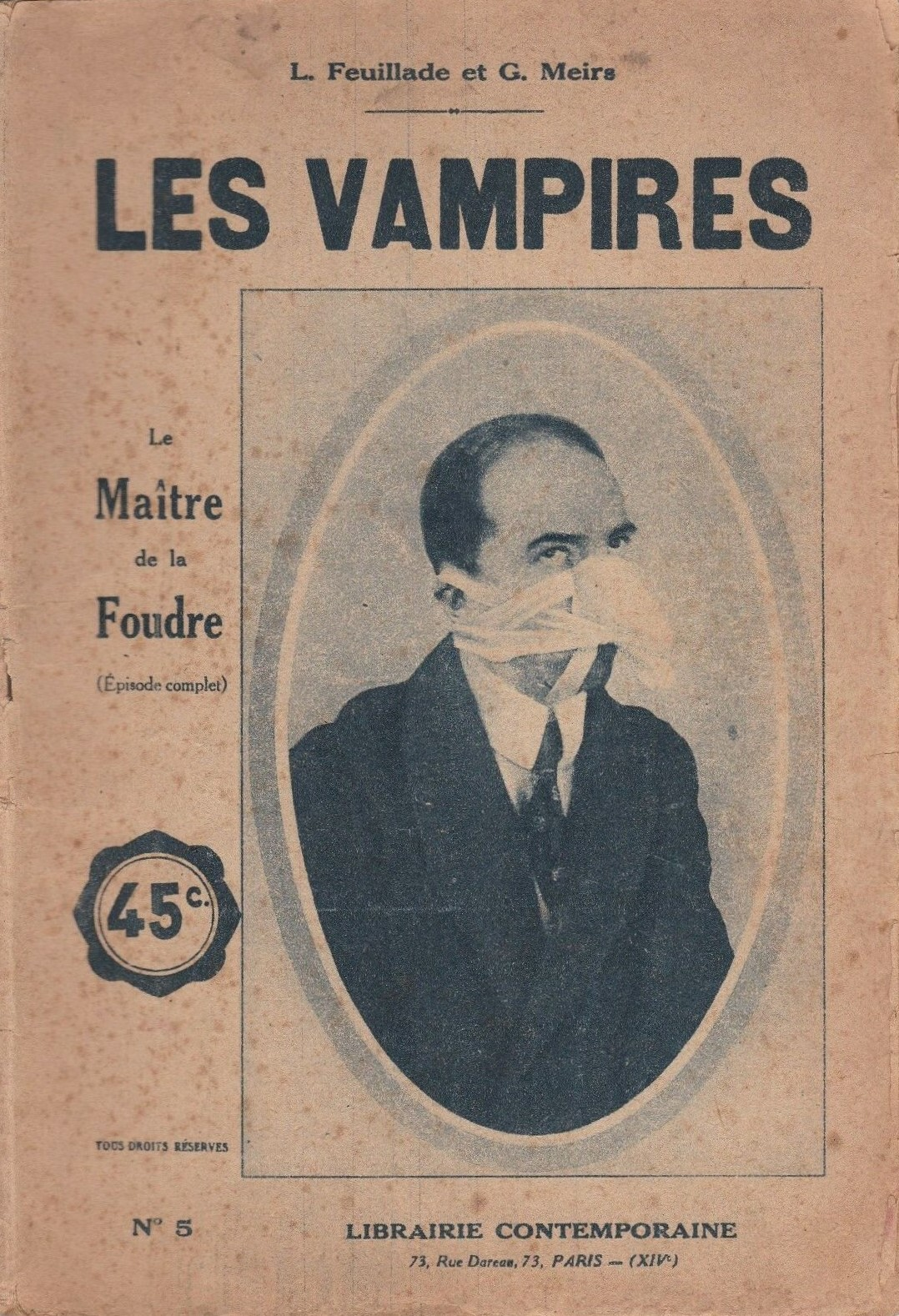 The frontispiece of the novelization of the film "Les Vampires Episode 8 - The Thunder Master" The image is of Marcel Lévesque performing as Oscar-Cloud Mazamette.